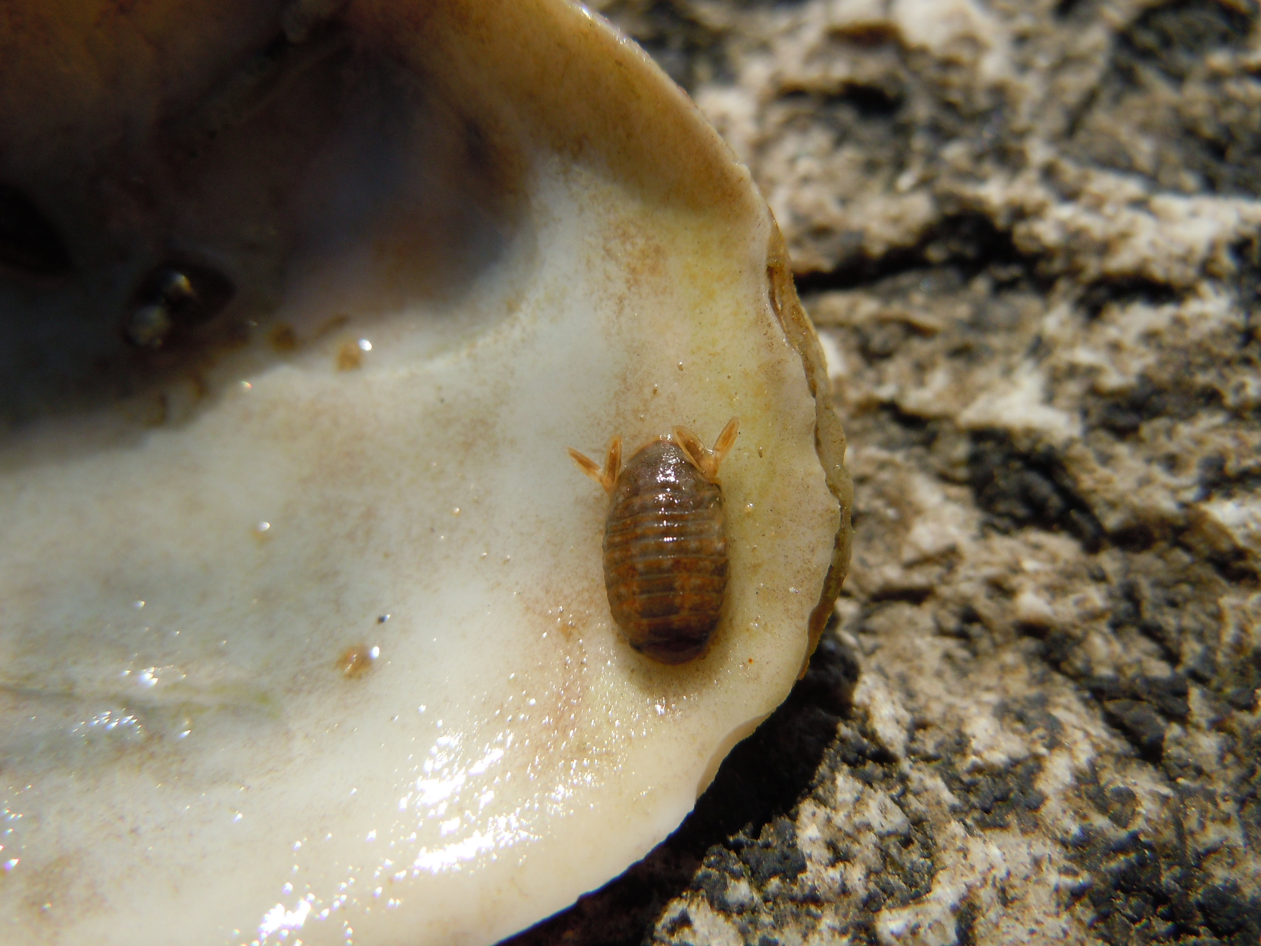 The isopod Lekanesphaera hookeri on the sell of Mya arenaria, Hryhorivsky Estuary, Ukraine